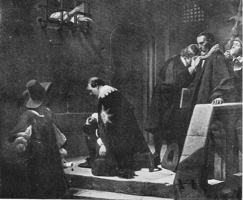 Archbishop Laud gives his blessing to the Earl of Strafford, from the picture by Paul Delaroche, in More Pictures of British History by E.L.Hoskyn, A & C Black, London, 1914, p.37.